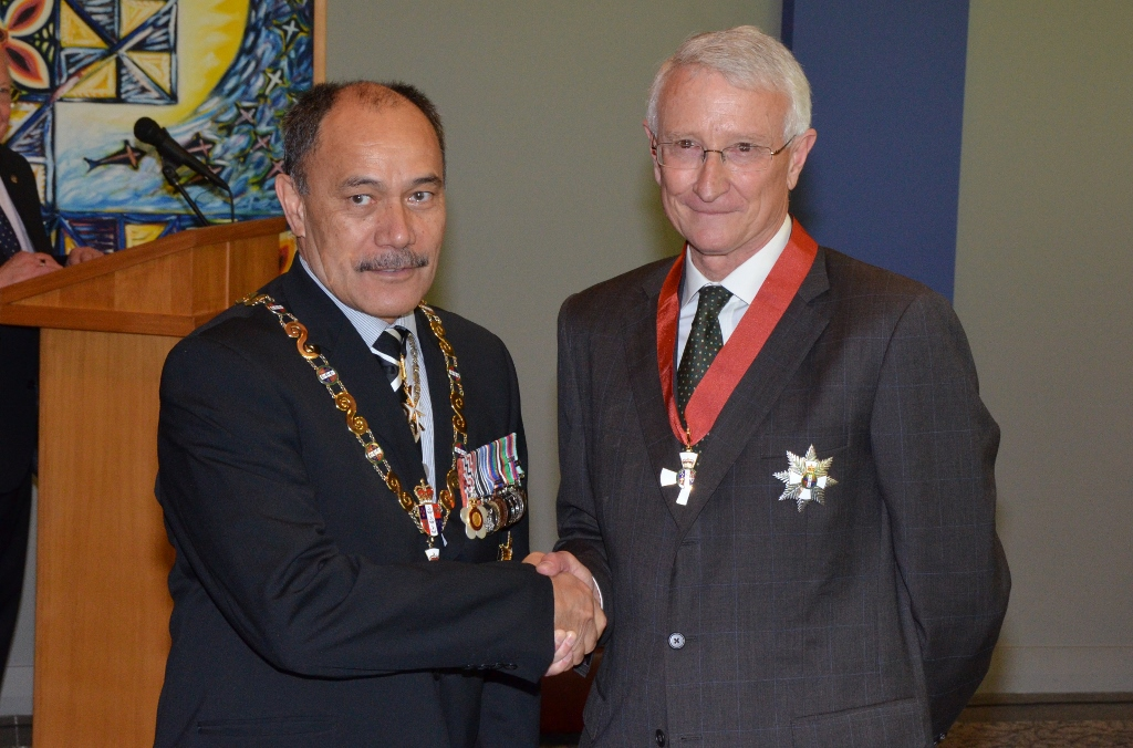 John Hood (right), after his investiture as KNZM, for services to tertiary education, by the governor-general, Sir Jerry Mateparae, on 21 August 2014